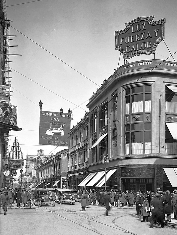 «The building of the "Light"», Ahumada with Compañía, Santiago de Chile